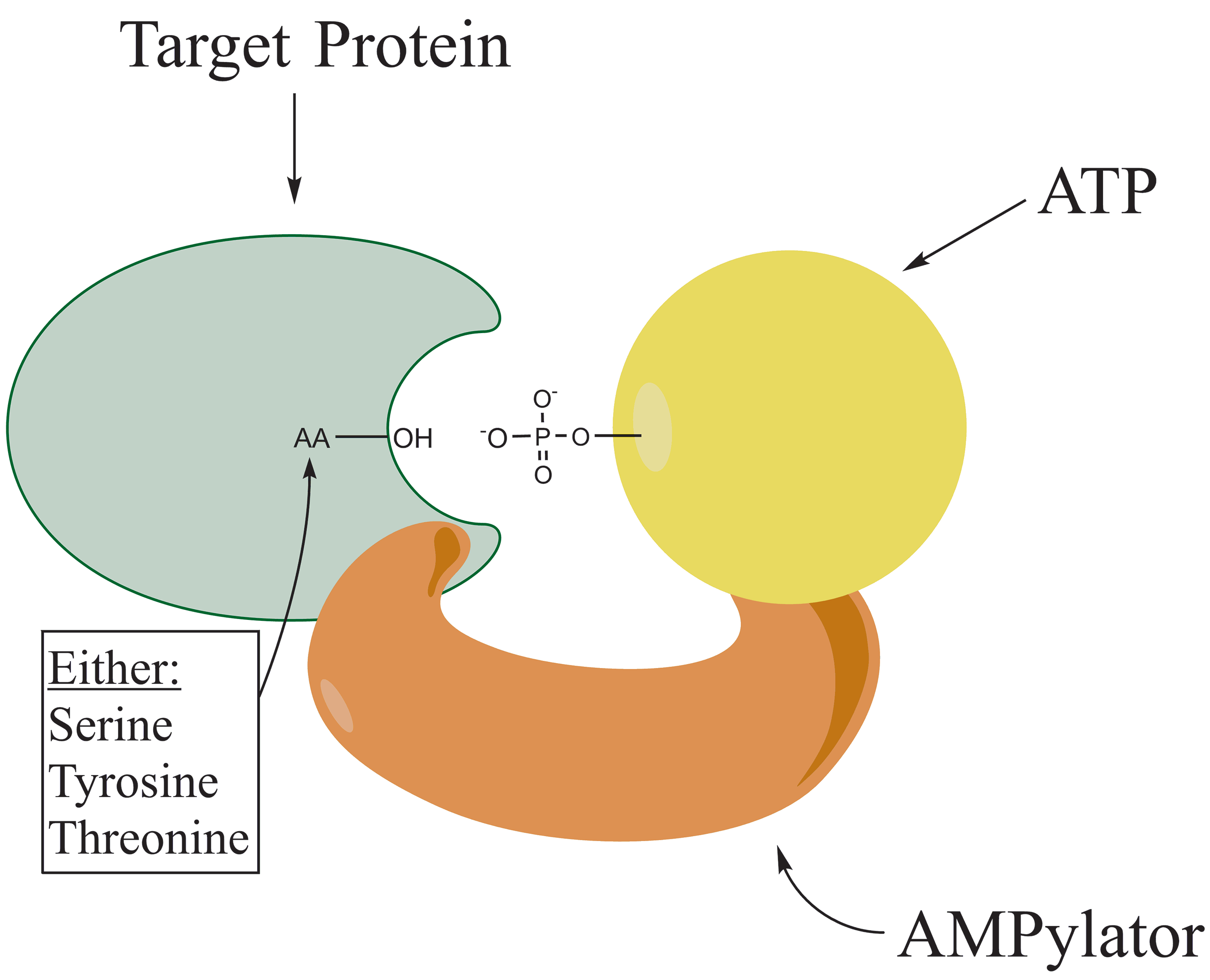 Target protein receiving an AMP molecule. It is first an ATP molecule where the diphosphate is removed leaving the AMP behind.